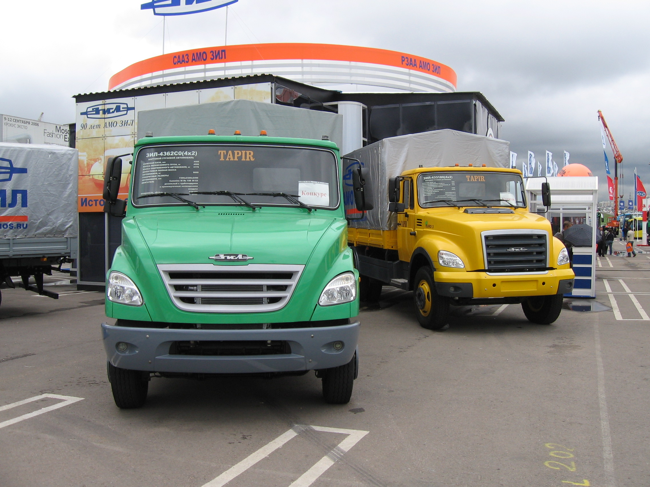 Zil's trucks. Russia, Moscow. MIMS 2006